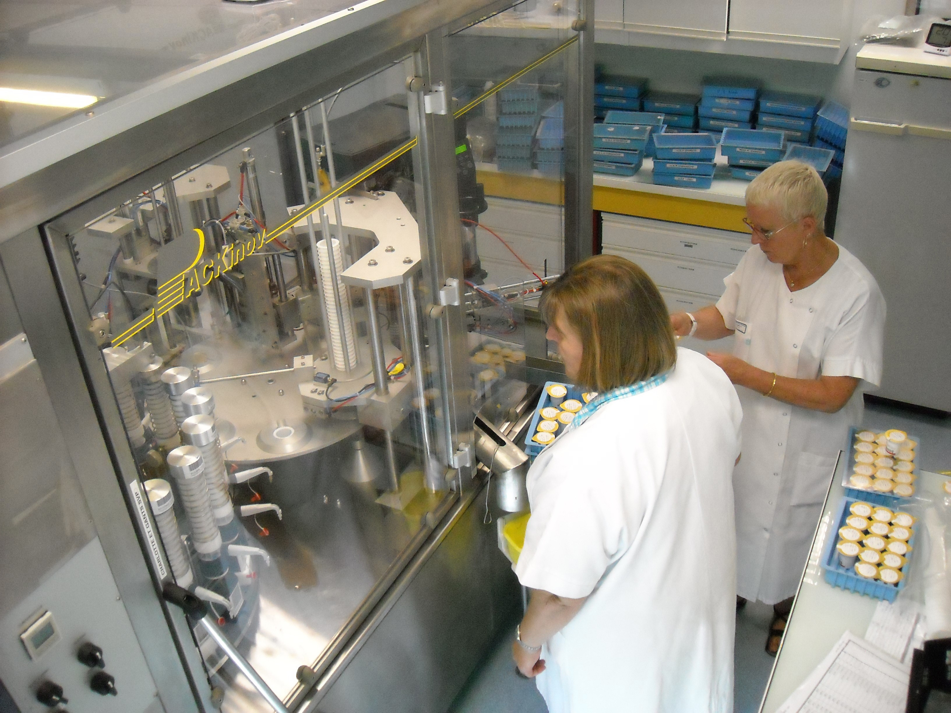 automated f lagrange